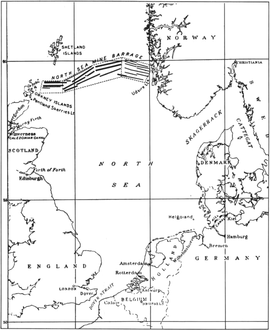 Map of the North Sea Mine Barrage, laid in the Summer of 1918. The mine barrage consisted of 18 rows of mines laid in an east-west direction between the Orkneys and Norway. The minefield was laid by British and U.S. ships. 56,571 of the 70,177 mines were deployed by the U.S. Navy.